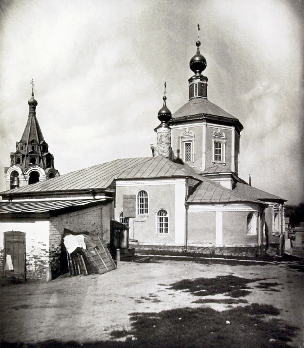 Church of St Stephan on Shvivaya Hill, Moscow.